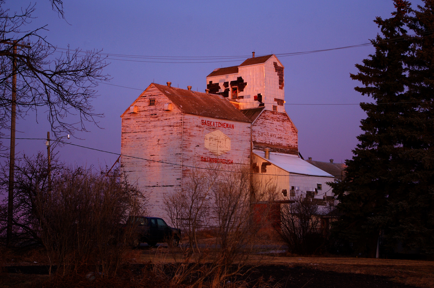 A wooden grain elevator at sunset in Gainsborough, Saskatchewan, Canada. The building sports the metallic-silver paint scheme of the Saskatchewan Wheat Pool, but that company sold the facility to a private buyer in the early 2000's.